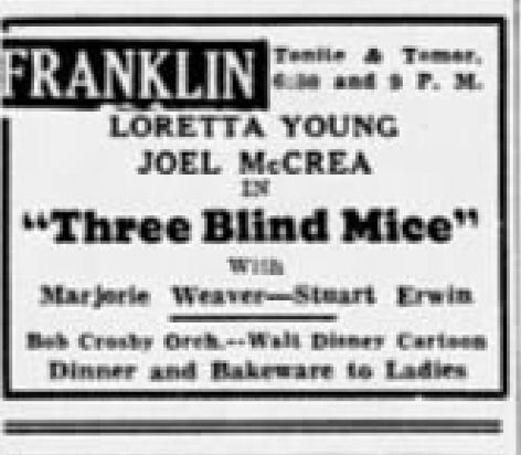 Franklin Theater advertisement for the American romantic comedy Three Blind Mice (1938) - 26 Sep. 1938 Morning Call, Allentown PA